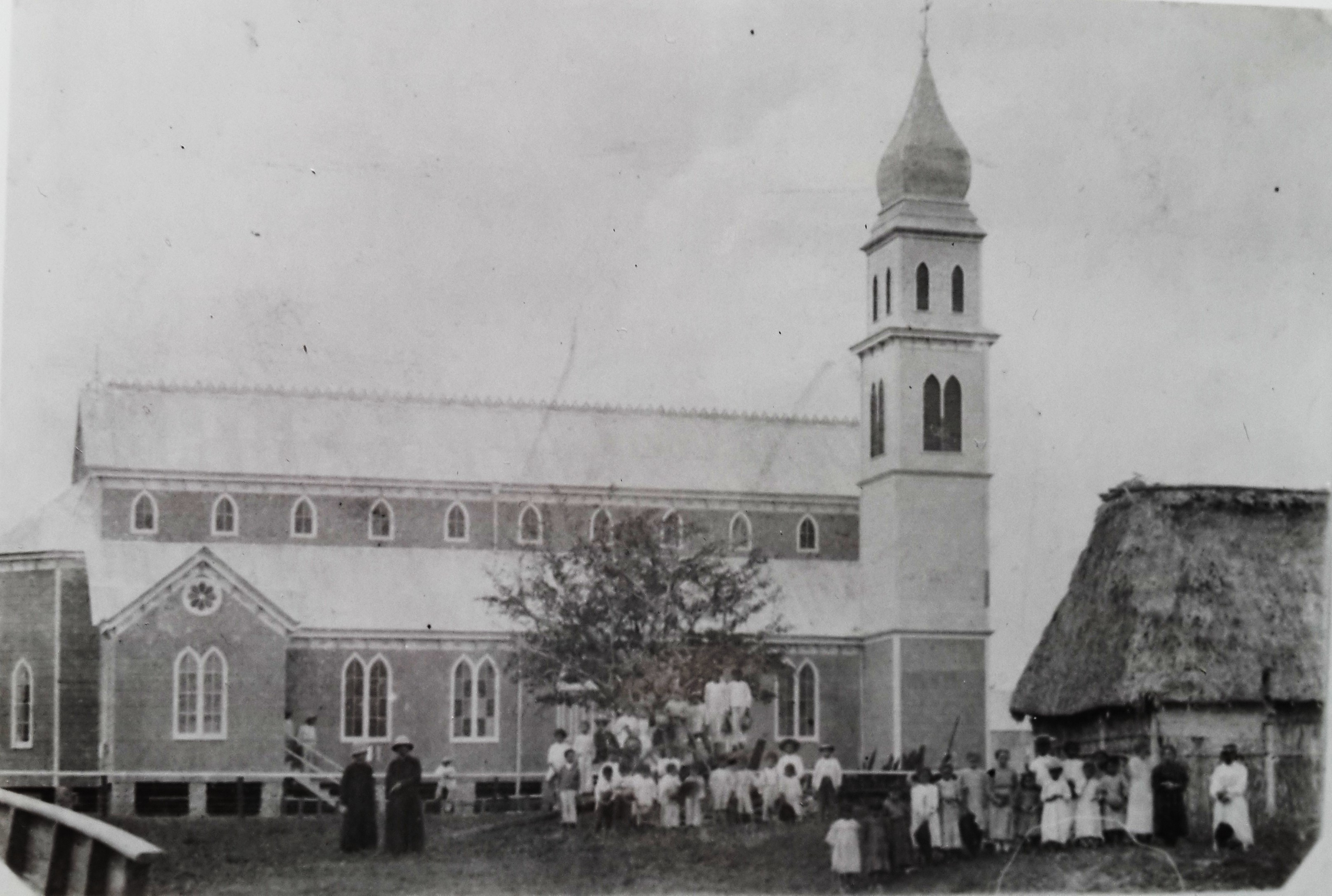 Orange Walk new Inmaculada Catholic church built in early 1900s by Fr. Meuffels next to temporary church (pictured here) used after 1899 fire